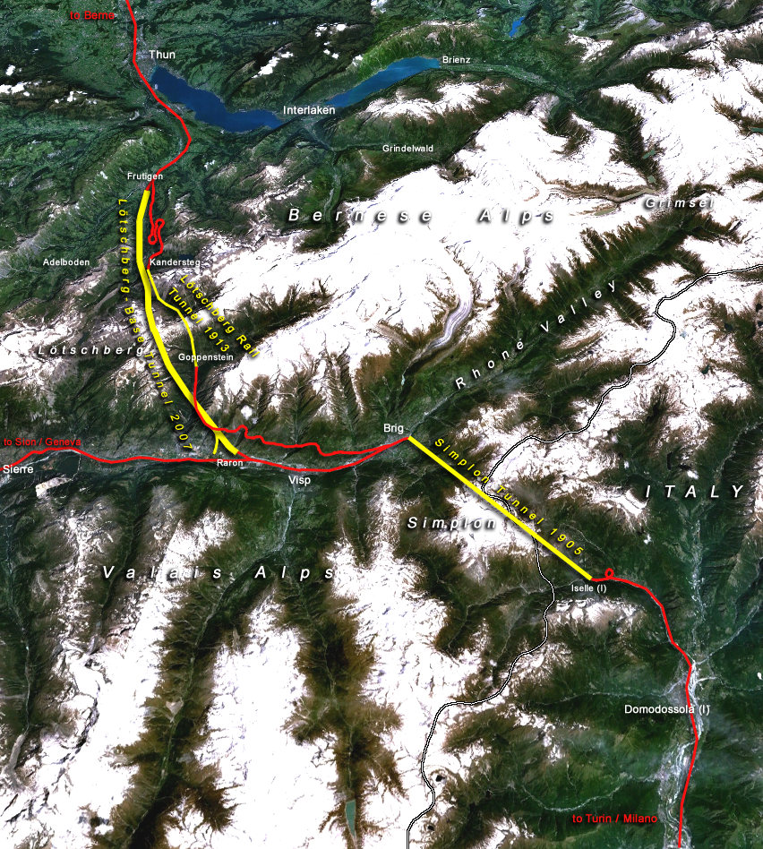 Situation of the Lötschberg axis, the western part of the New Railway Link through the Alps NRLA / Alptransit project in Switzerland with the new Lötschberg and old Simplon base tunnels (yellow: major tunnels, red: existing main tracks, numbers: year of completion)